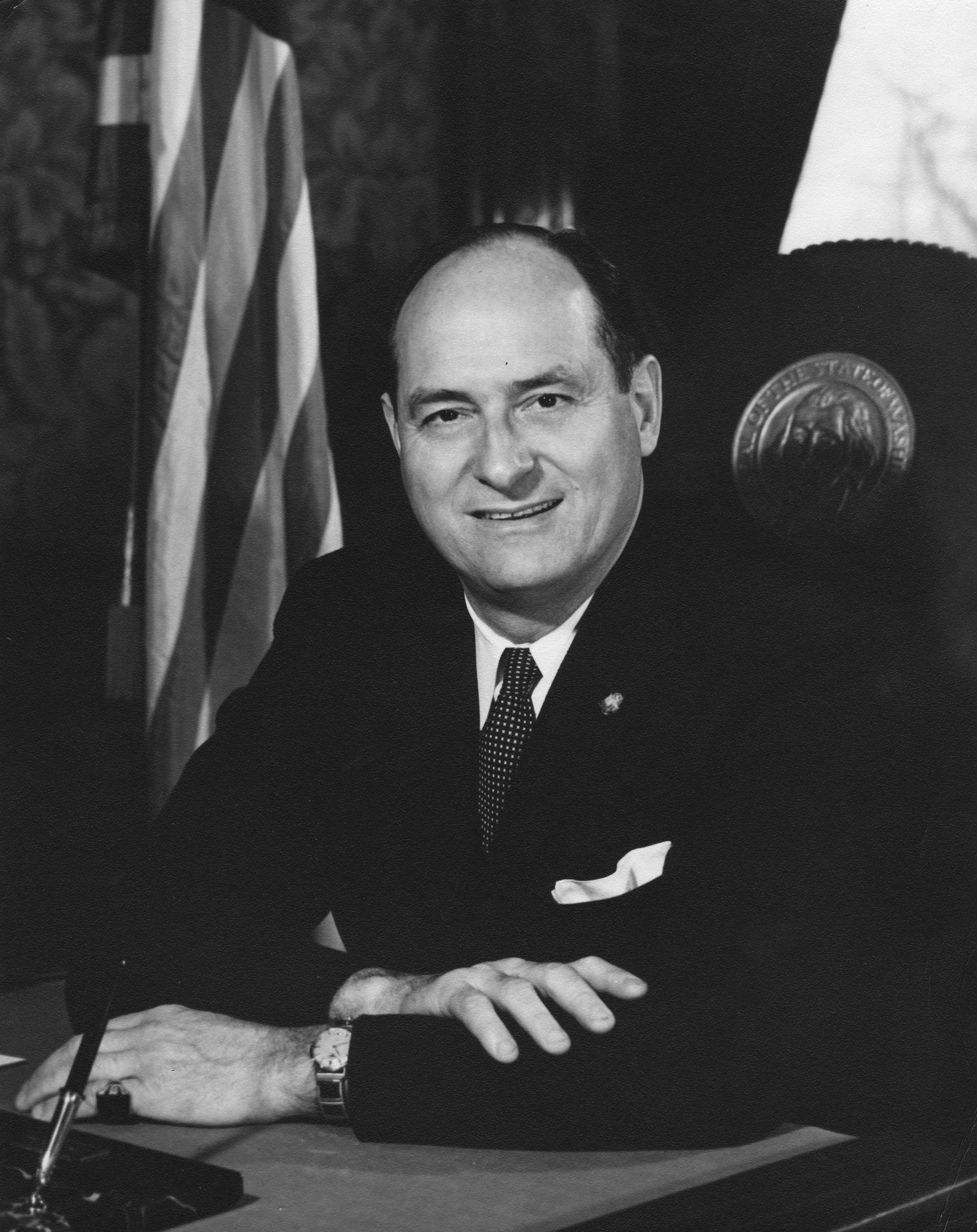 Photo of Albert D. Rosellini, Governor of Washington from 1957–1965.